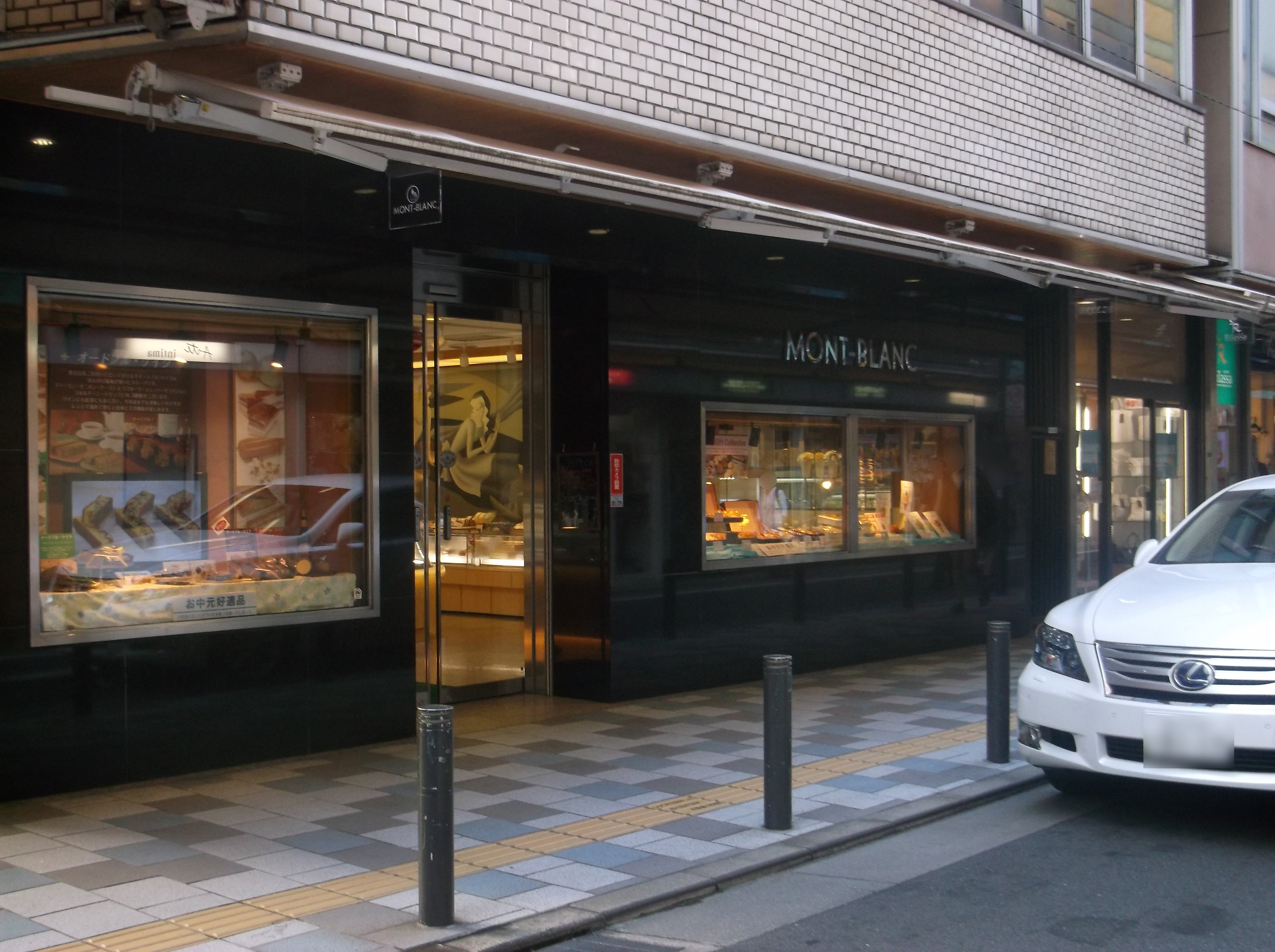 A photo of a cake shop"MONT-BLANC"Jiyugaoka,Meguro-ku,Tokyo,Japan